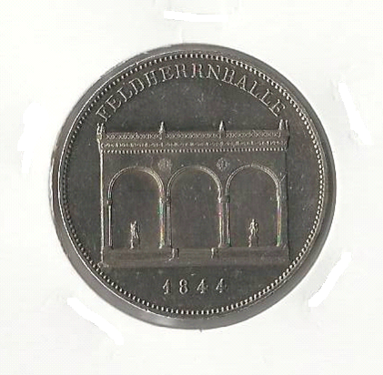 Reverse of double historical taler of Bayern 1844. Original image was taken from image from german Wikipedia, which was scan and uploaded there